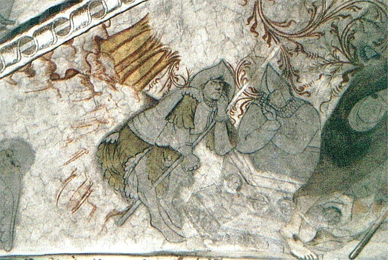 Undløse kirke in Holbæk kommune, Denmark. Famous for its frescoes made by Unionsmesteren from apr. 1430.